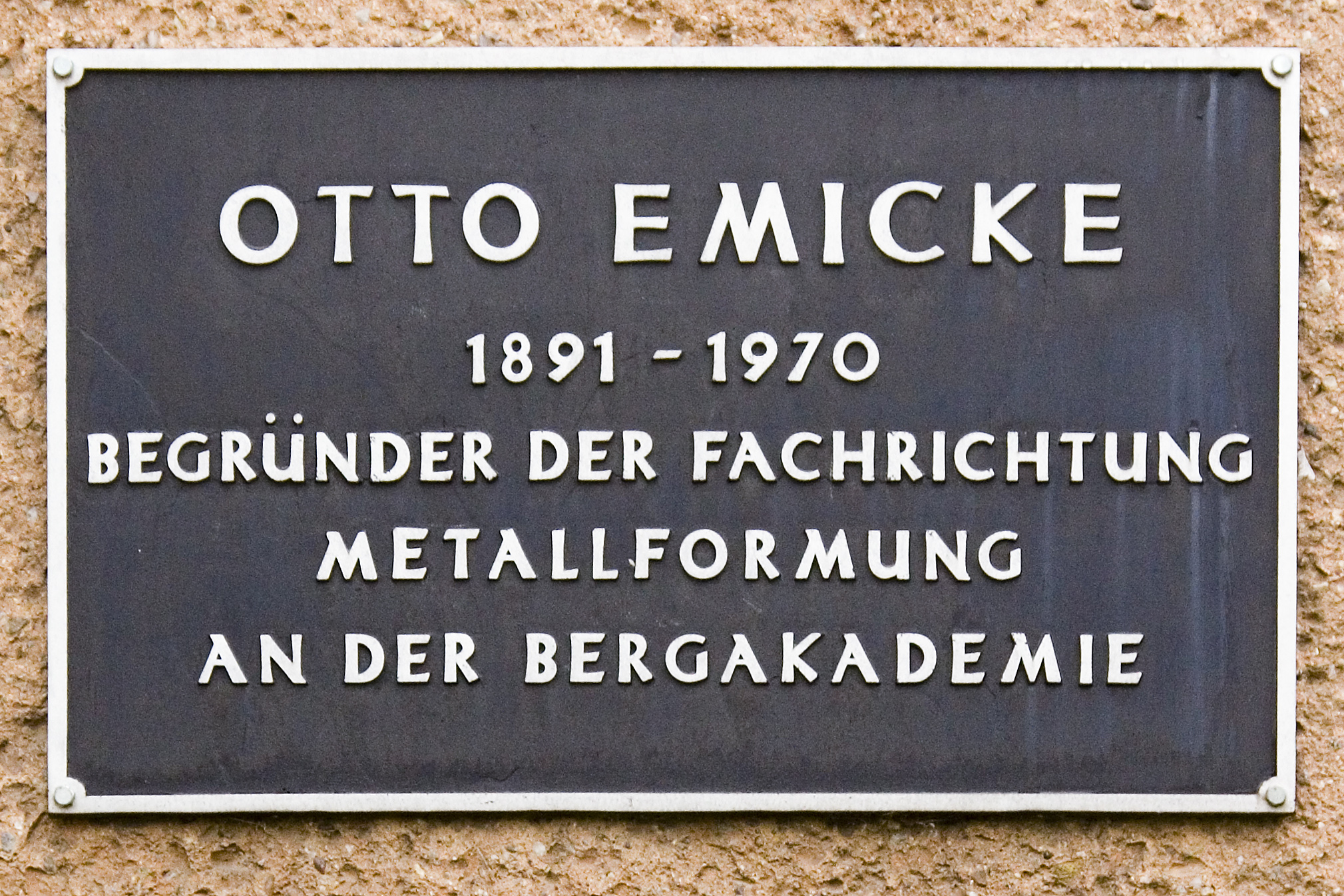 Otto Emicke, plaque in Freiberg (Saxony)